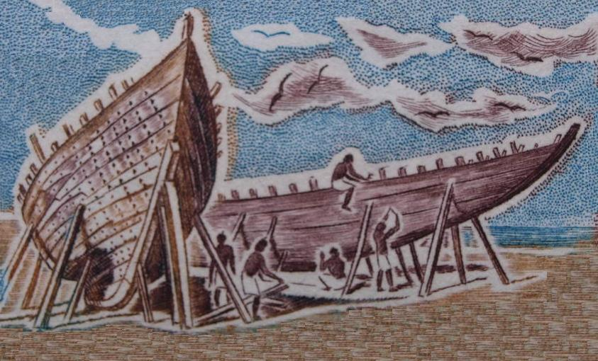 Modernization of Zarug to Zaruk. It is a part of sttamp cleaned from stamp details.